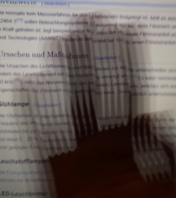 Moved hand in front of the screen. During the electronic shutter duration of 30 ms (according to the image's meta data), the LED backlight flashed five times through the interdigital spaces. The speed of the hand was around 24 "digits/s", which is quite moderate compared to the usual speed of eye movements on the screen. Flicker is nevertheless hardly perceptible as the brain suppresses perception during saccdes.